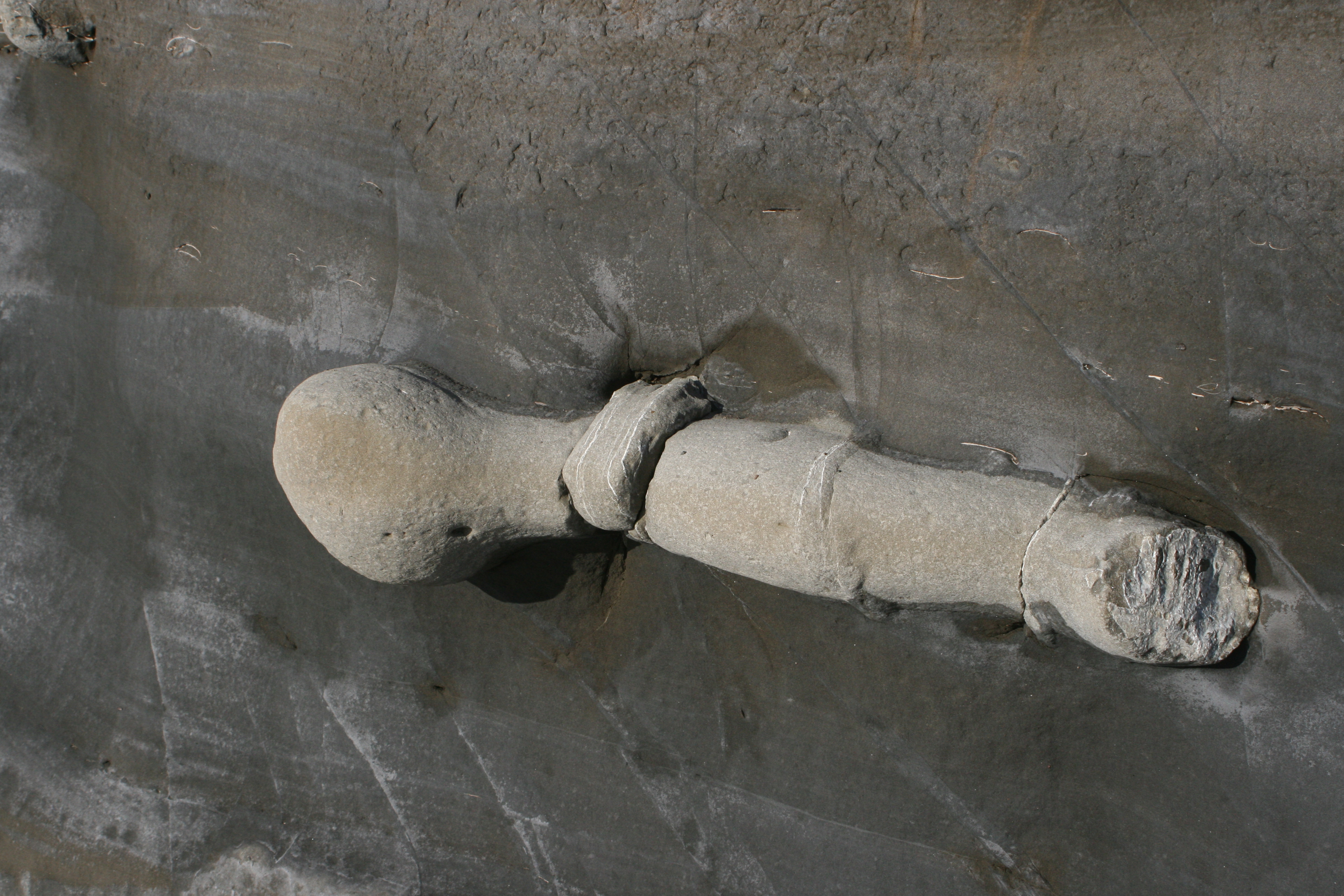 Sandstone Concretion in the wall at the beach of Año Nuevo State Reserve. This concretion was too high in the wall to place a ruler, but I estimate it to be about 400 mm long. Please take a look at additional two images, which help you to see the settings of the image better: The first image shows the beach wall with two concretions and the second image is the wide angle image of the wall This same wall has lots of Fossils inclusions:.The Concretions often get weathered out from the wall. At the next image you could see few spheres Concretions, which were found in a close proximity.